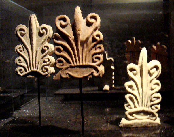 Architectural antefixes at Ai Khanoum, 2nd century BCE. Musée Guimet. Personal photograph 2006.